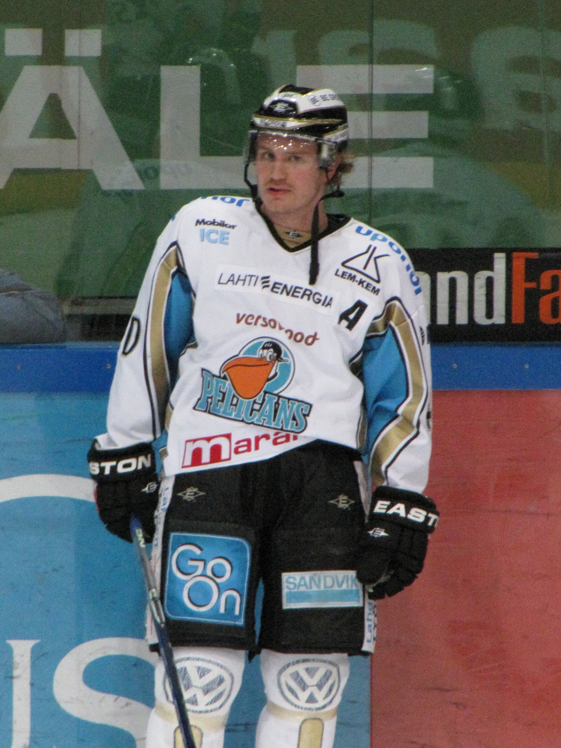 American ice hockey center Dwight Helminen playing for Lahti Pelicans in an SM-liiga game against Tampere Ilves in Tampere, Finland, in February, 2011